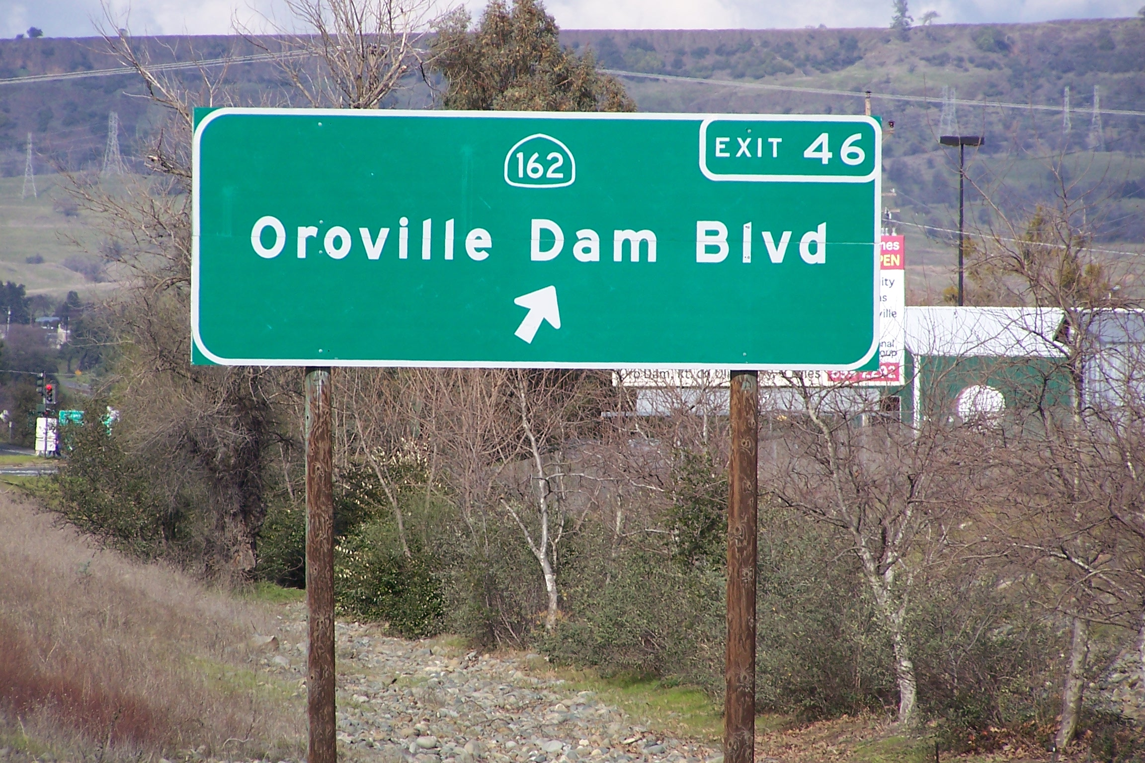 Personal Photo